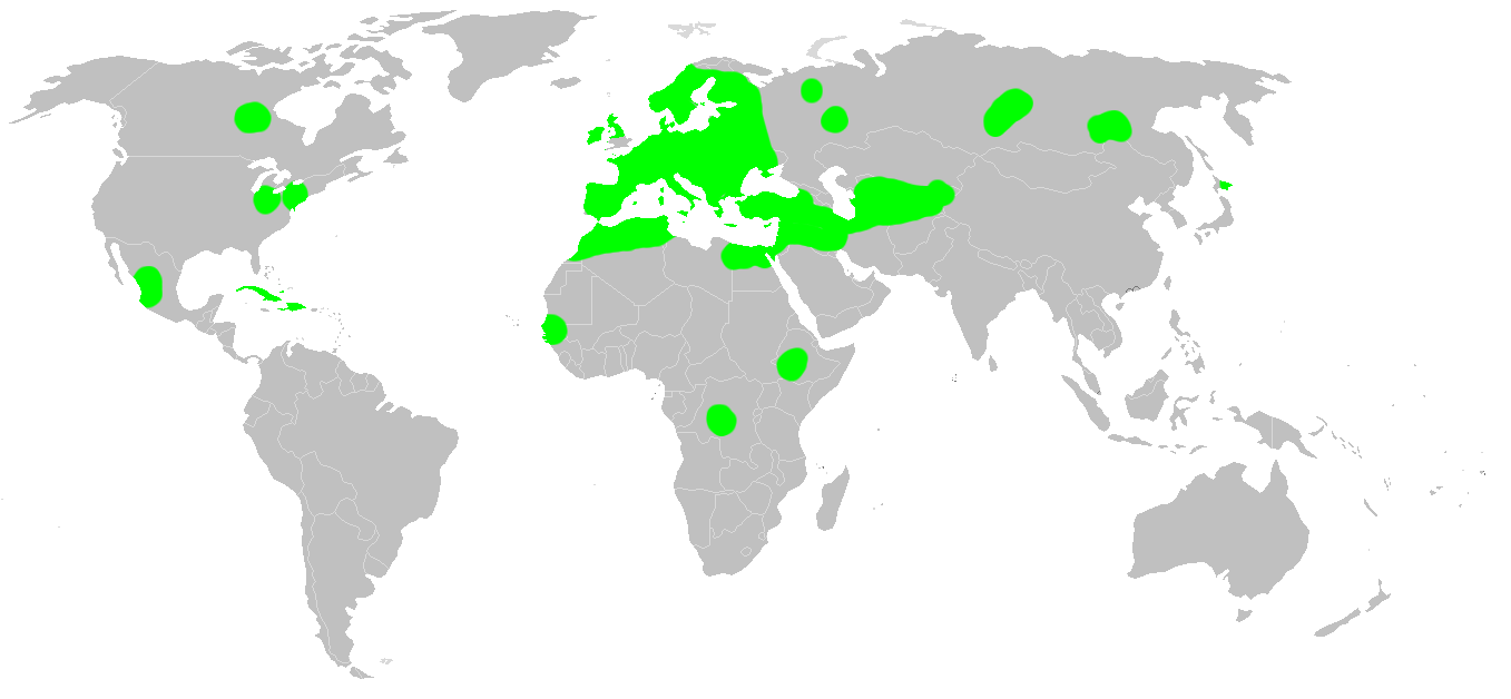 Known world distribution of Arctosa cinerea (Lycosidae).